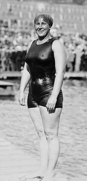 Lilian Beaurepaire of Australia, sister of swimming medallist Frank, at the Olympic Games in Antwerp, circa August 1920. She was last in the third semi-final heat for the 100 metre freestyle, fourth in the semi-finals for 10 metre platform diving and eighth overall in the 300 metres freestyle event.